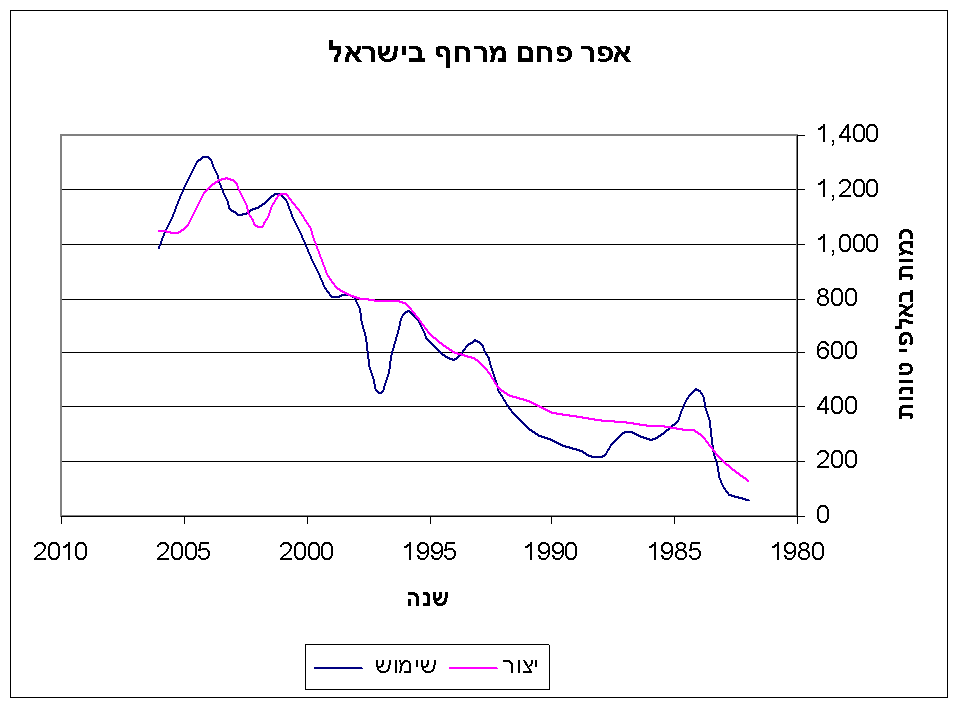 production and consumption of fly ash in israel